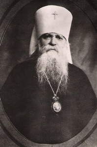 Metropolitan Eleutherius of Vilnius and Lithuania